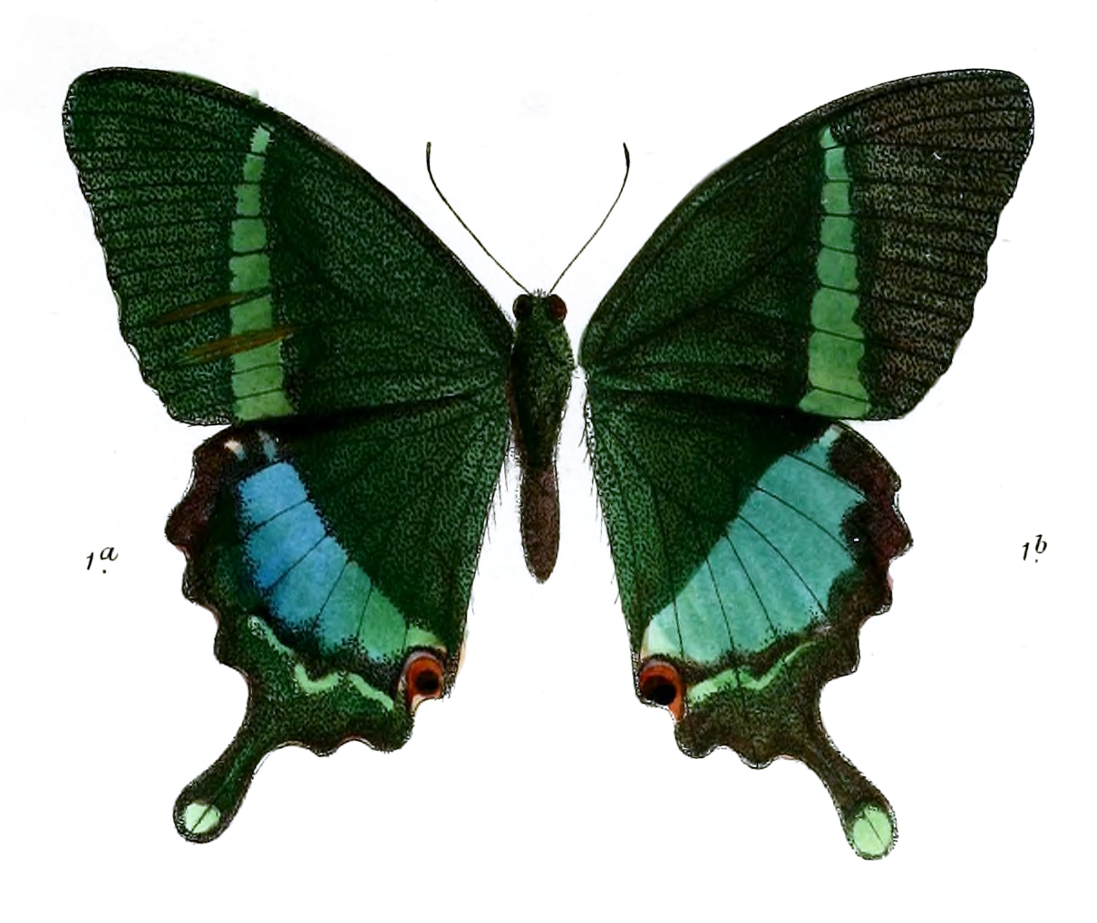 Papilio crino (male)